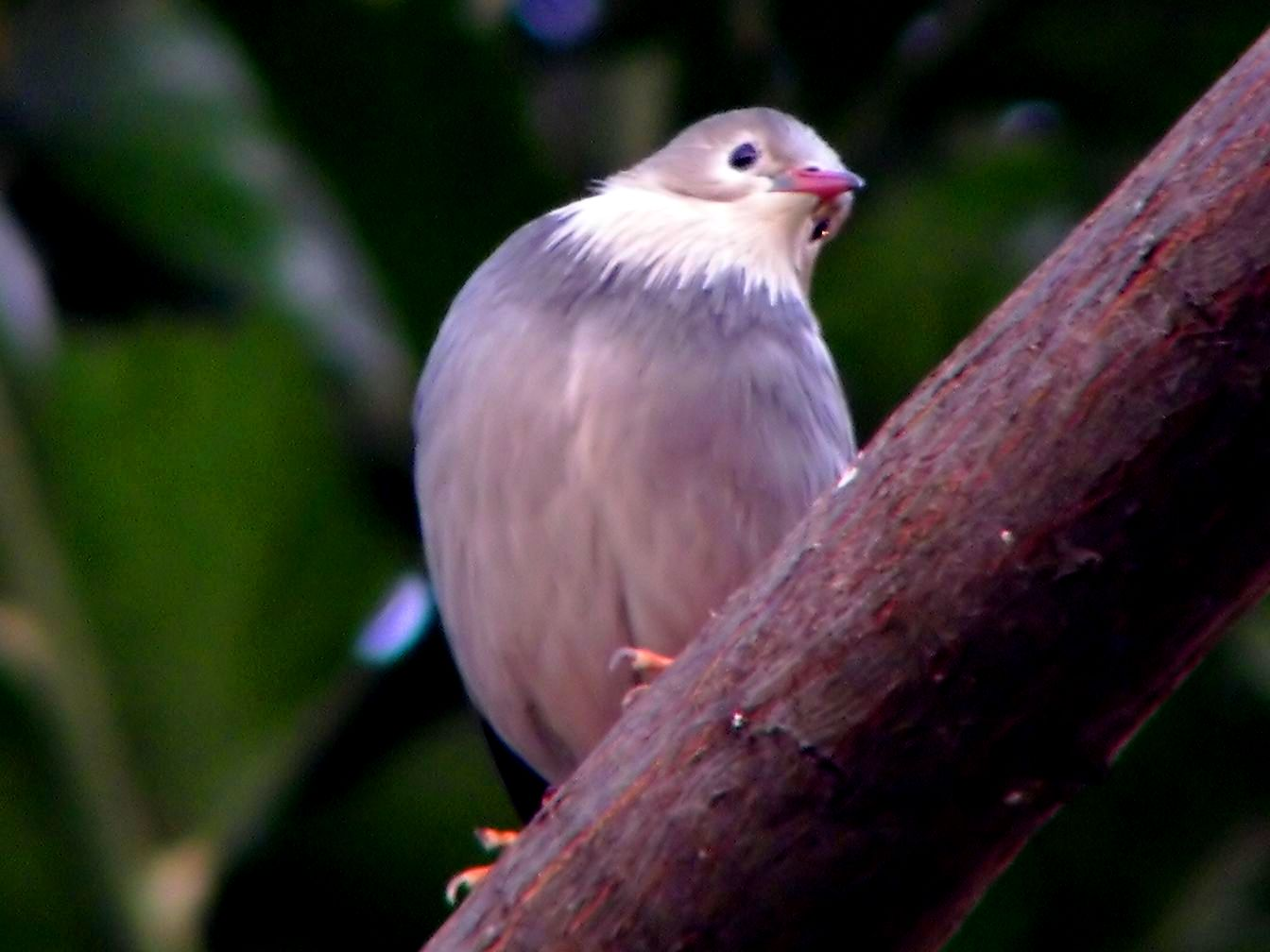 Red-billed Starling (Sturnus sericeus)